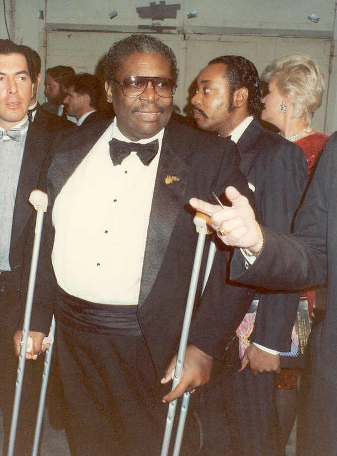 B.B. King at the 1990 Grammy Awards show.